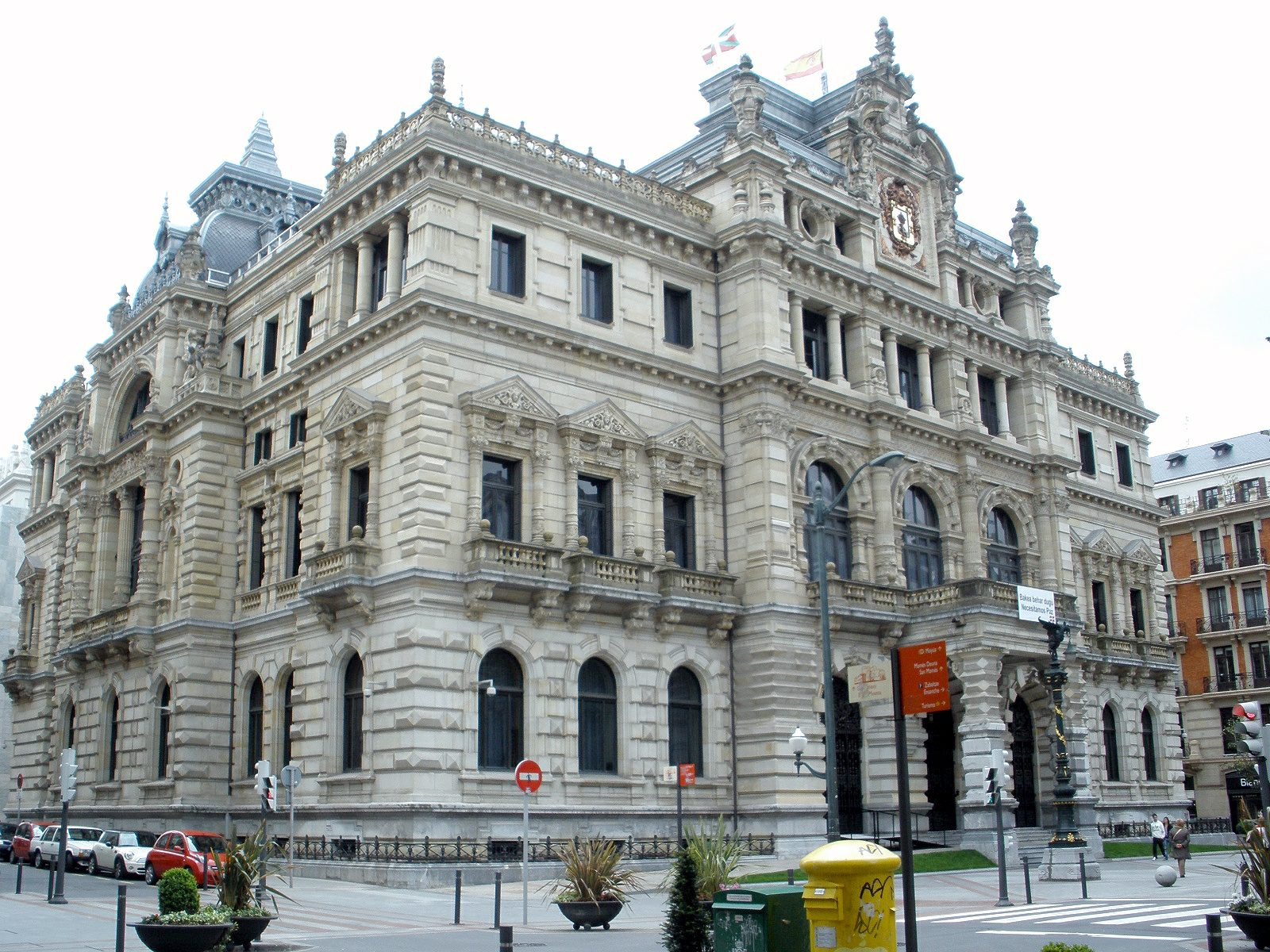 Biscay foral council, at Bilbao (Basque Autonomous Community, Spain).